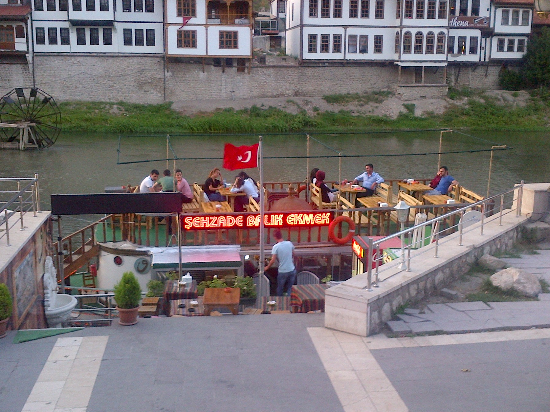 Balık-ekmek a la orilla del rio en Amasya.